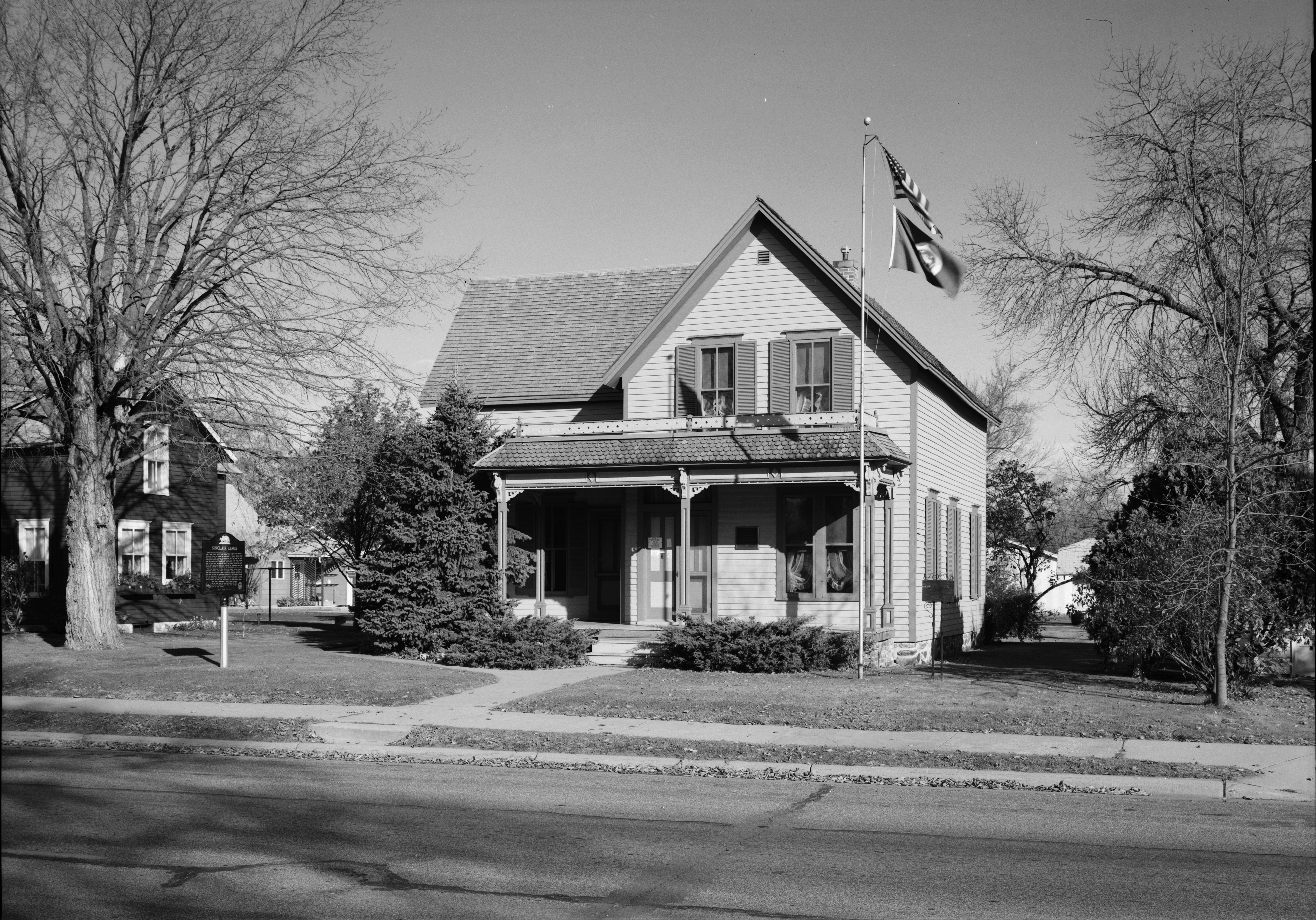 Sinclair Lewis Boyhood Home, 812 Sinclair Lewis Avenue, Sauk Centre, Stearns County, MN. Boyhood home of American author, Sinclair Lewis, at Sauk Centre. Lewis was awarded the Nobel Prize for literature in 1930, becoming the 1st American to be so honored. His novel, "Main Street," was partly based on his impression of Sauk Centre. Category:Images of Minnesota